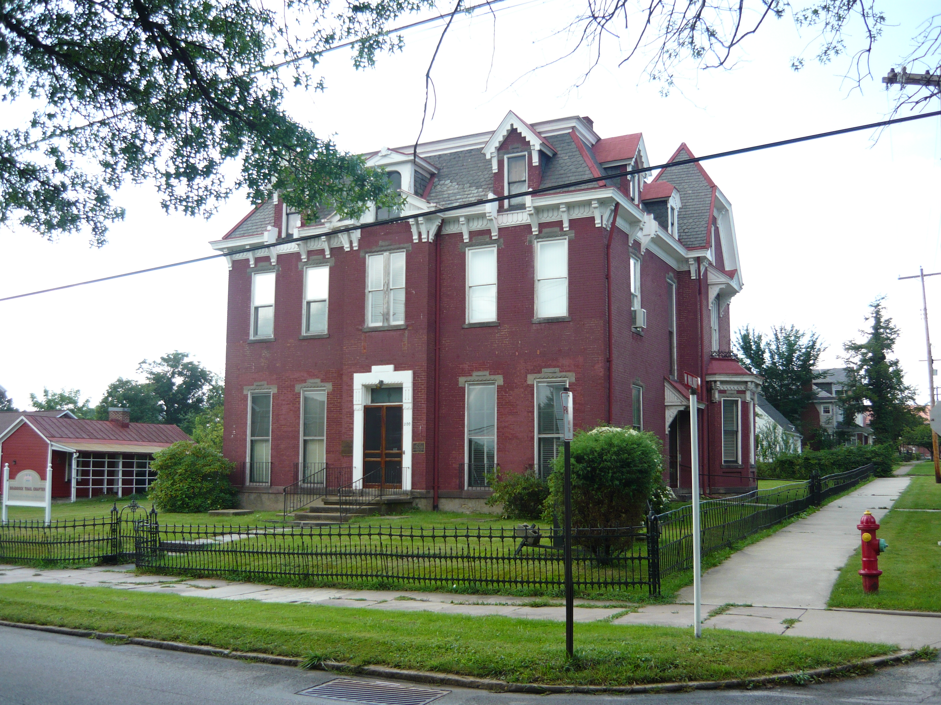 Samuel Warden House (1886) at 200 South Church Street (corner of East Walnut Street), Mount Pleasant, Pennsylvania (National Register of Historic Places)